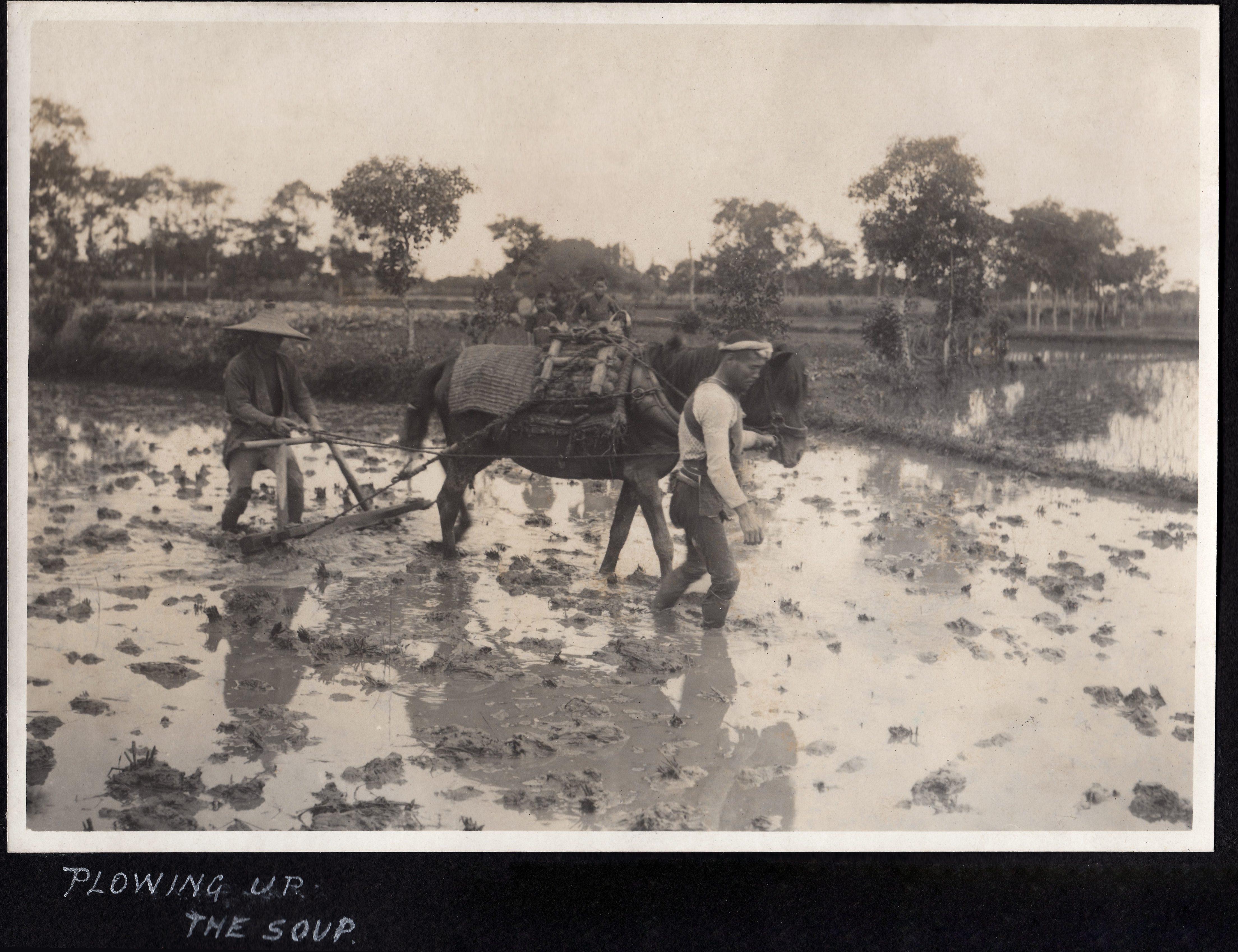 From the second page of an Elstner Hilton's album of photographs taken in Japan between 1914 and 1918. Image dimensions: 146mm x 102mm.